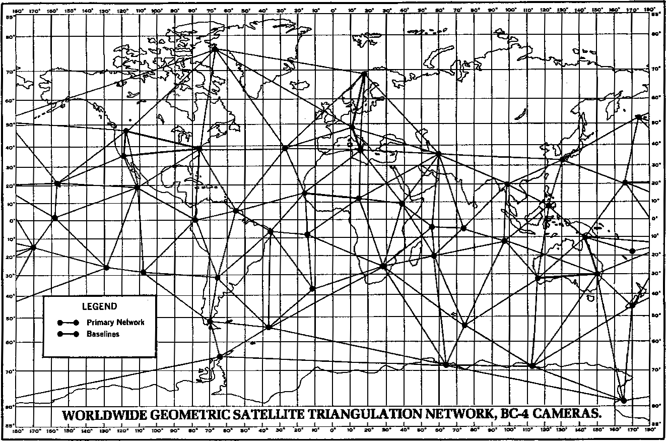 taken from the public domain booklet Geodesy for the Layman at